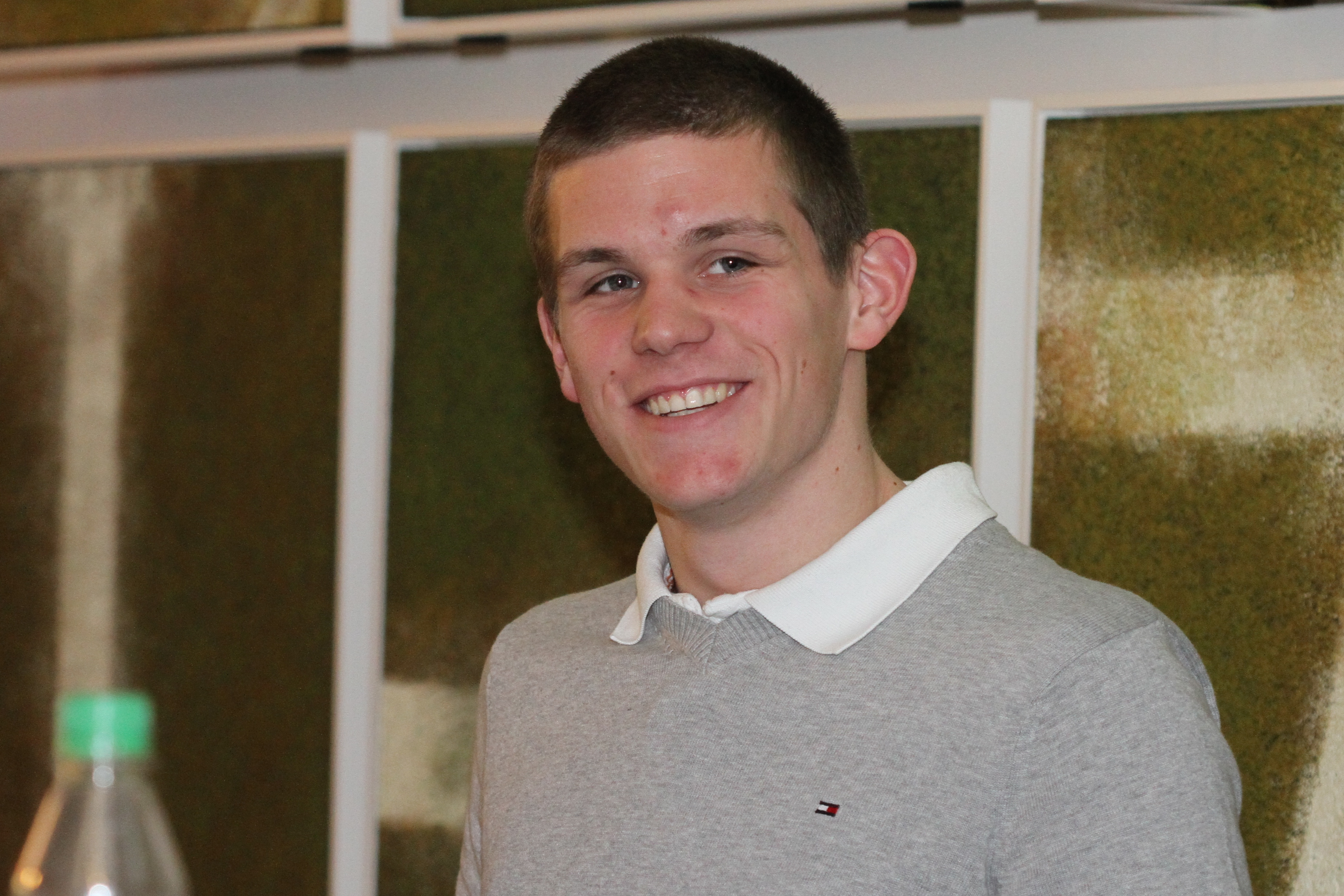 Eintracht Frankfurt´s player Sebastian Jung during the event "The Stars of Tomorrow" at Eintracht Frankfurt Museum, Commerzbank Arena Frankfurt, in February 2010